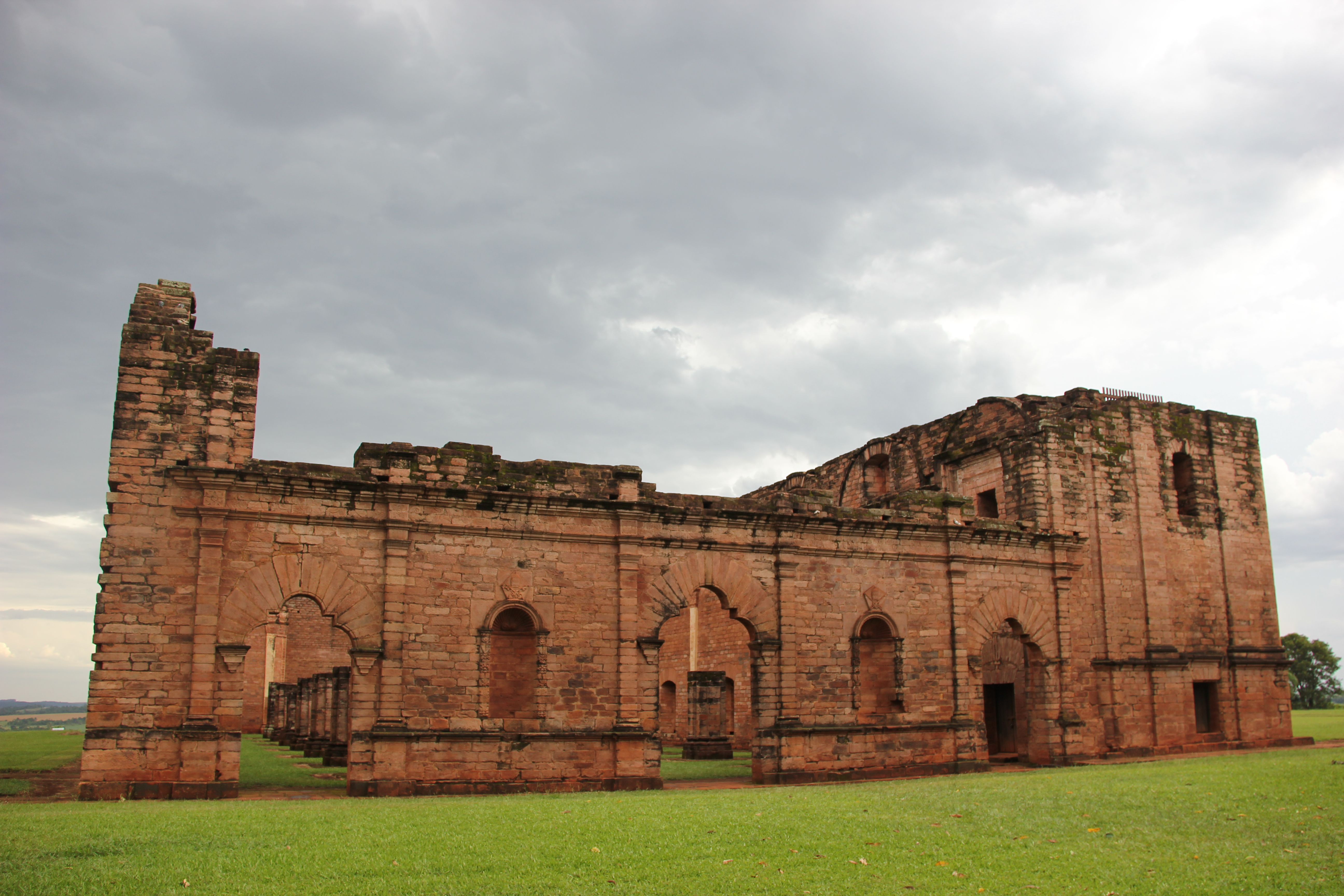 Jesus de Tavarangue - Main building from the left